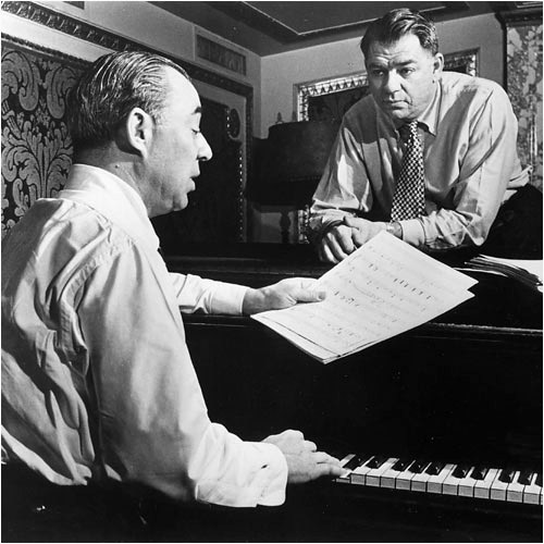 1945 Press Photo of the music-writing team of Richard Rodgers and Oscar Hammerstein.